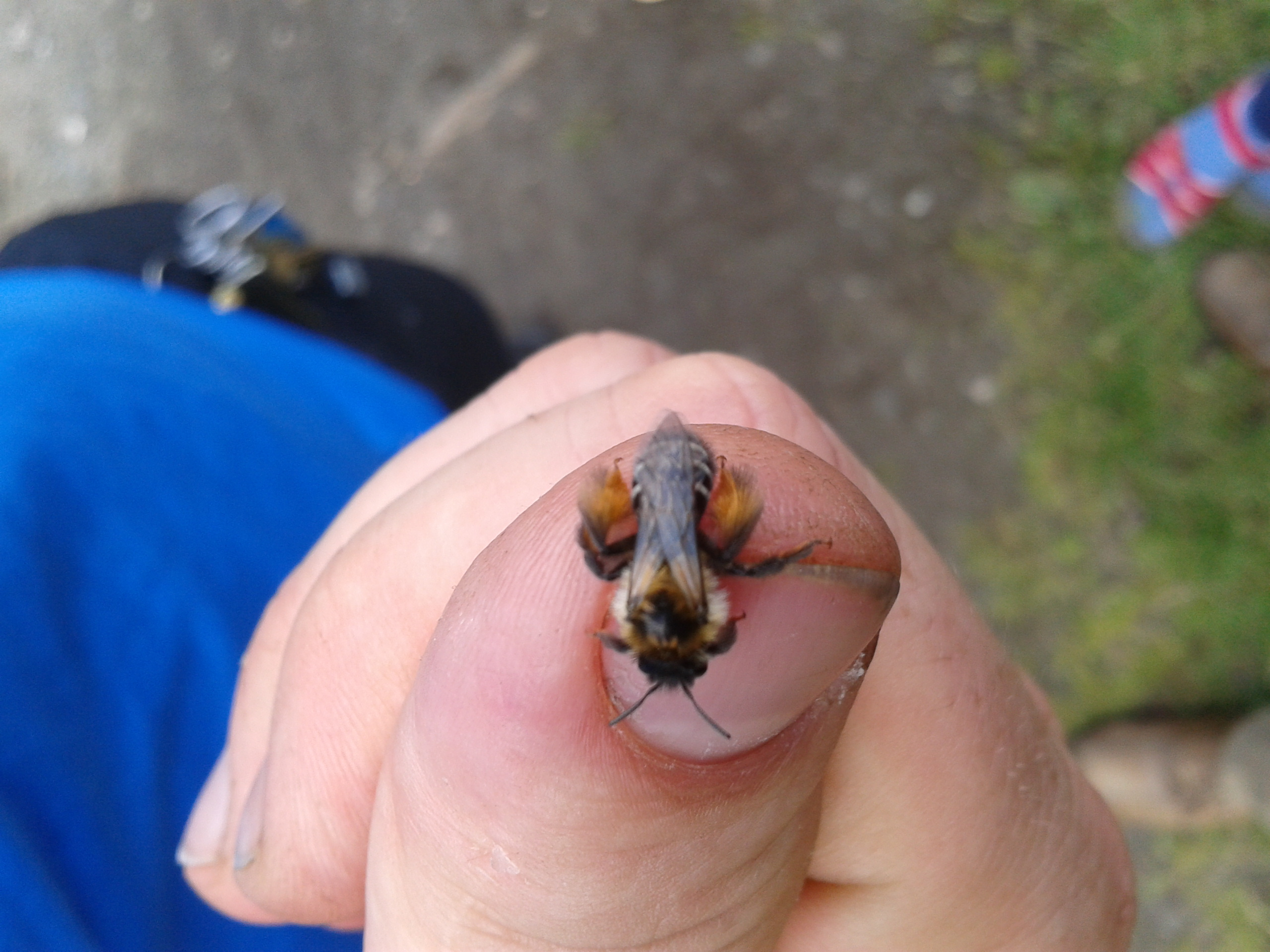 Dasypoda altercator in NW-Germany